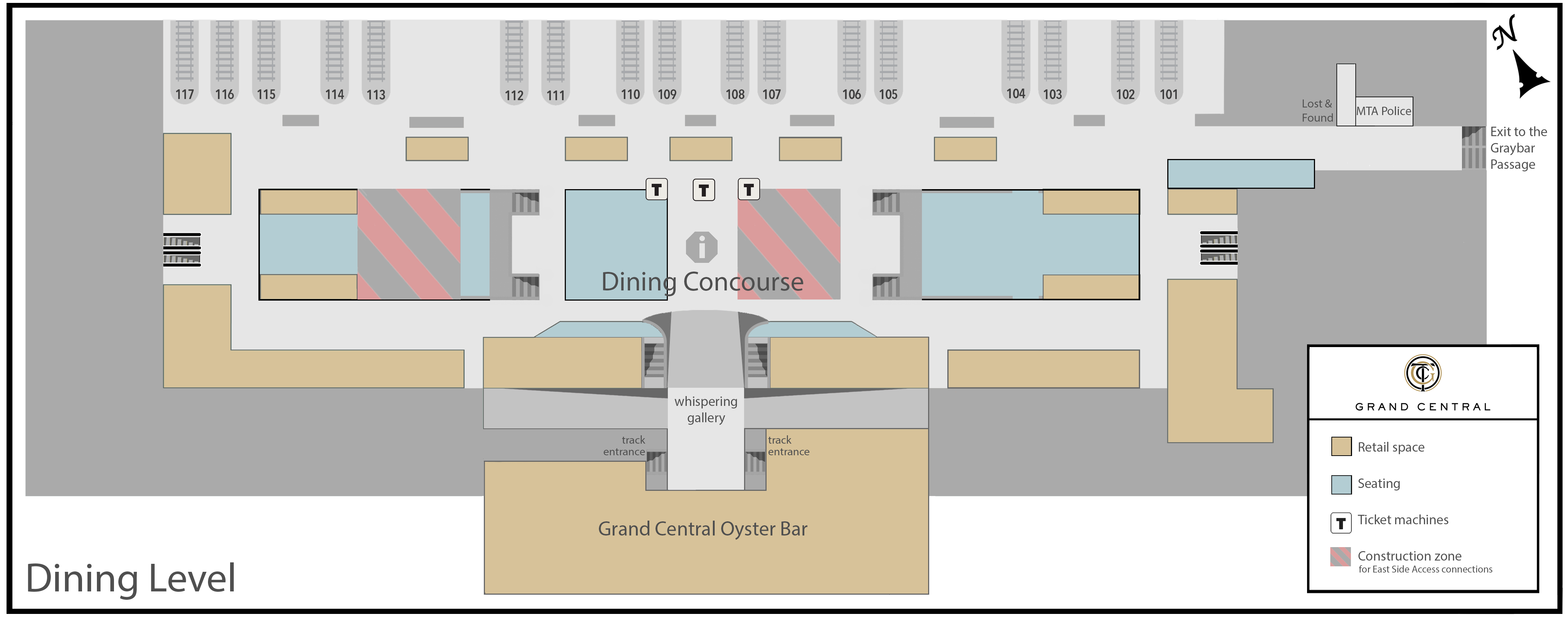 Map of GCT's Dining Concourse in 2019, using data from Google Maps and the Grand Central Directory. Please contact me for a PSD file if you'd like to edit this!